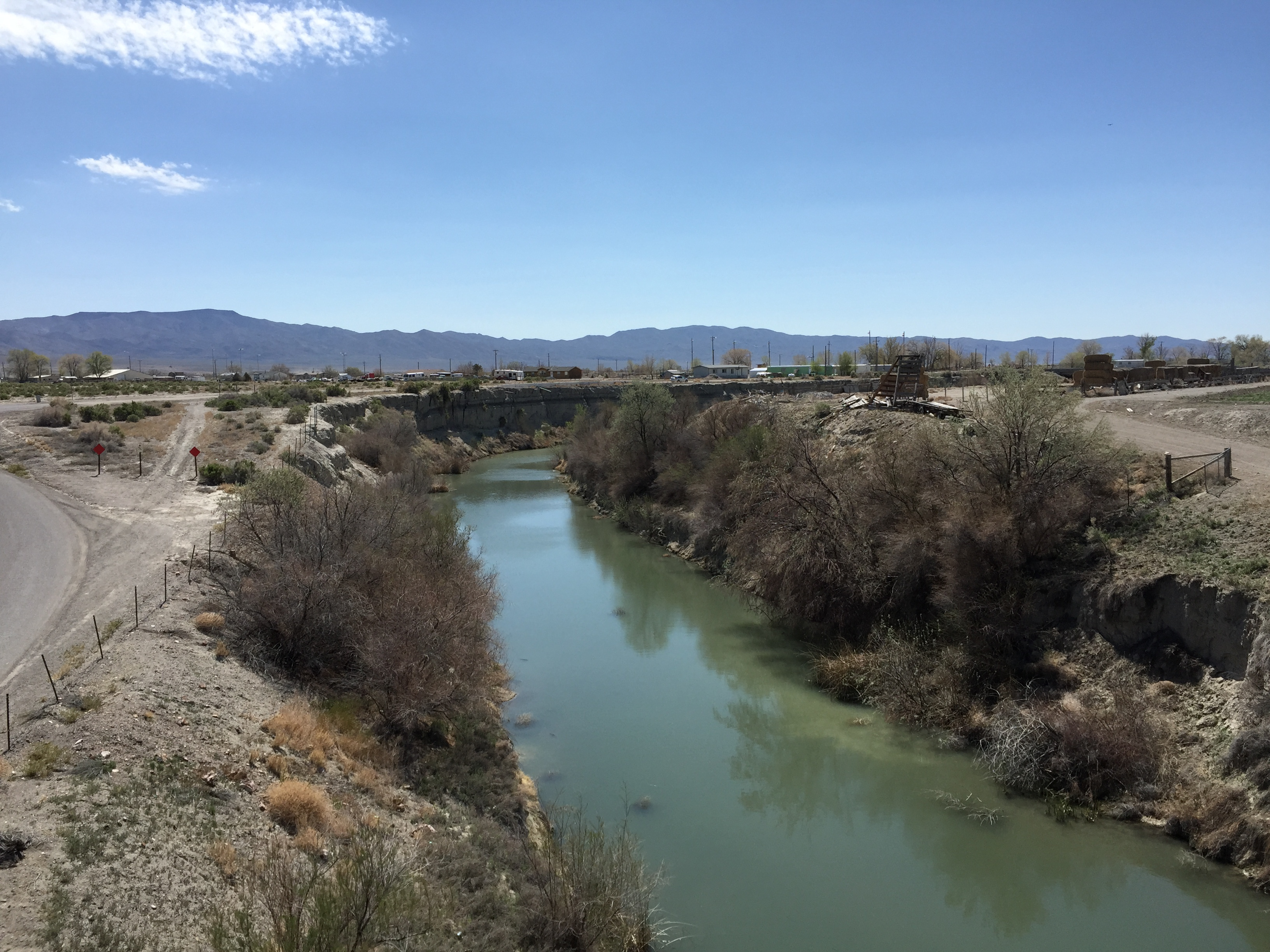 View down the Humboldt River from Interstate 80 just northeast of Lovelock, Nevada